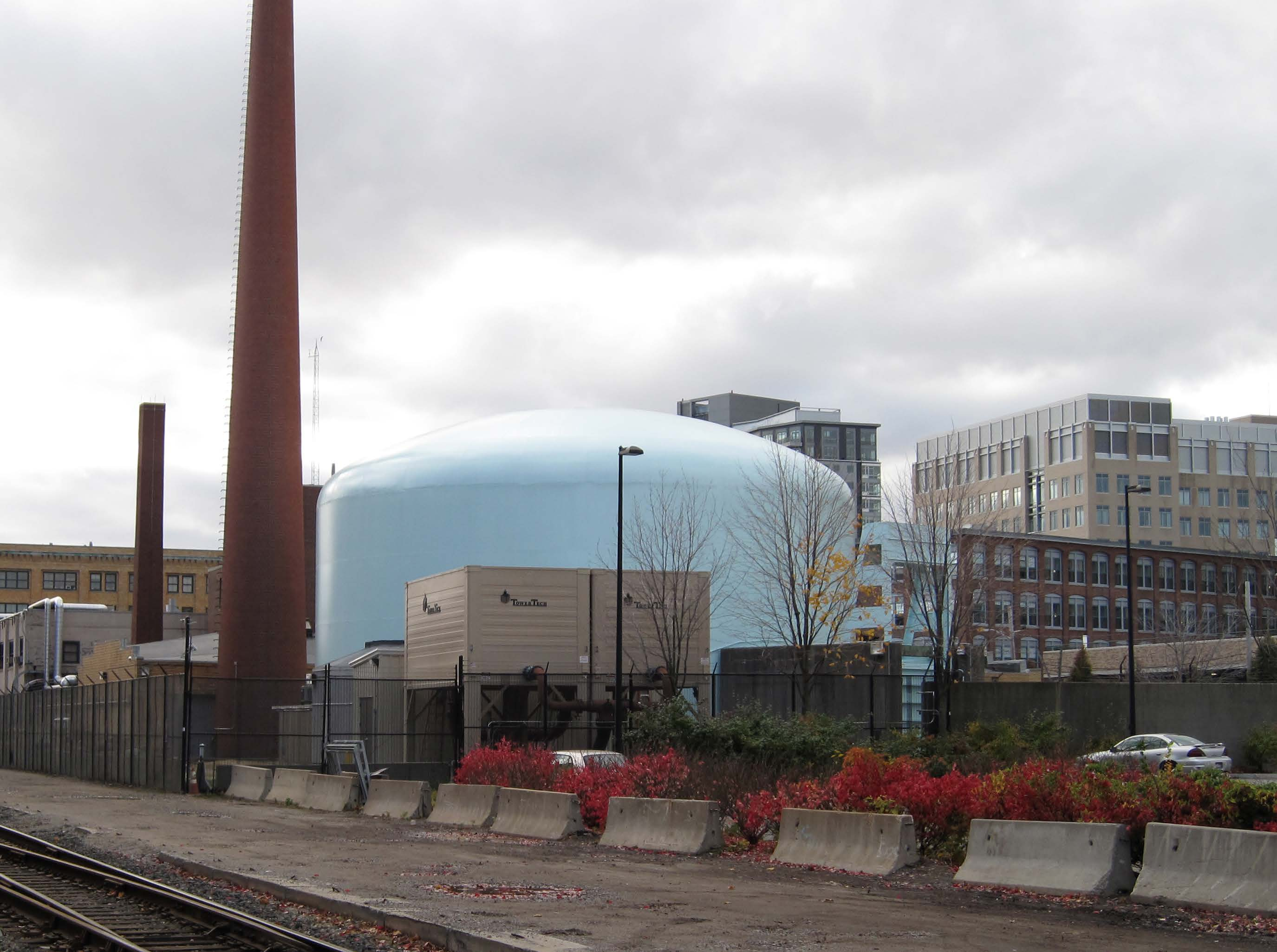 MIT Nuclear Reactor Lab - October, 2009